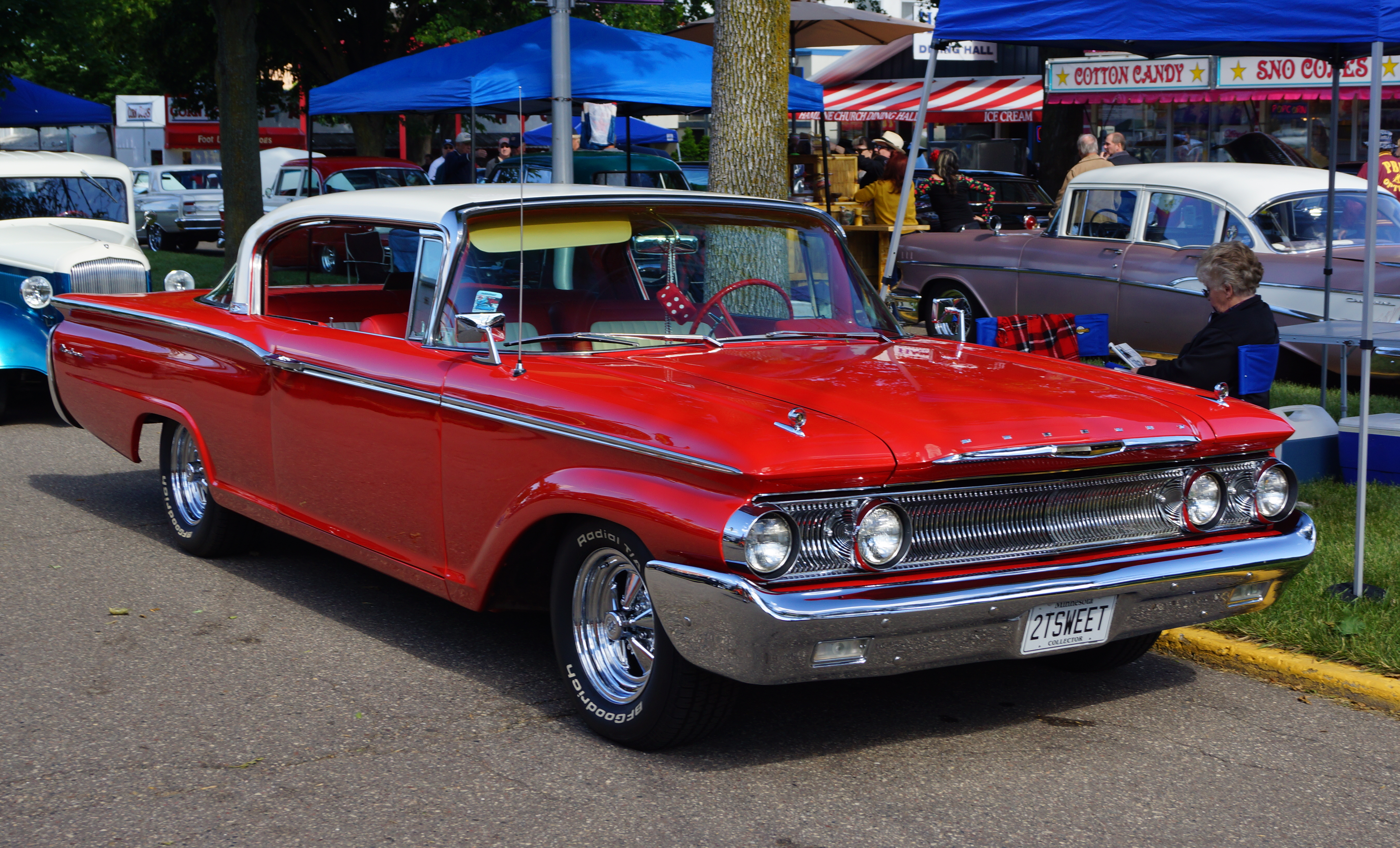 Minnesota Street Rod Association (MSRA) “BACK TO THE 50′s” 44th Annual Car Show June 23-25, 2017 Minnesota State Fairgrounds St. Paul Minnesota Click here for previous "Back to the 50's" pictures.. Click here for more car pictures at my Flickr site. Or here for my Car Crazy Tumblr site. Or on Twitter @DVS1mn.